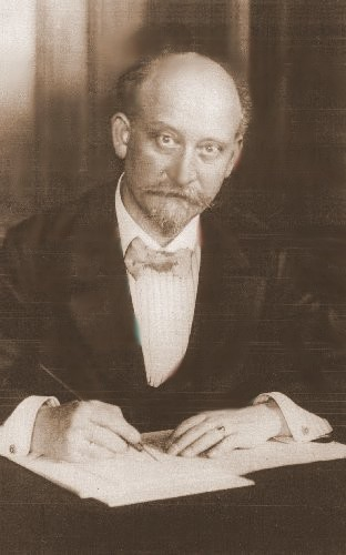 Photograph of Philipp Scheidemann, SPD politician and later first Chancellor of the post World War I Weimar Republic.